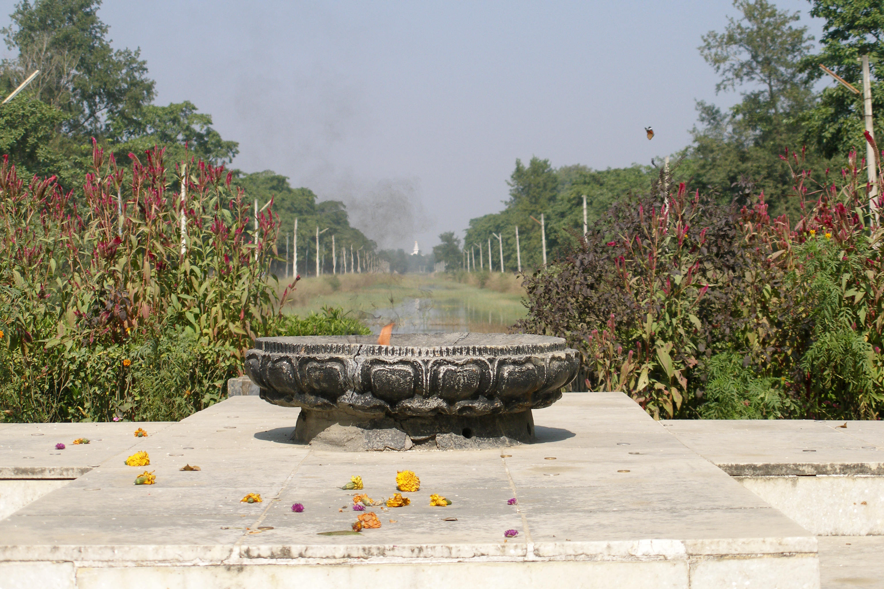 Eternal flame in Lumbini, Nepal